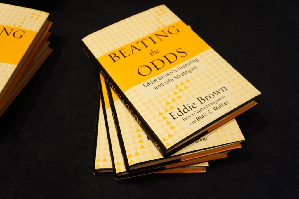 Photo image of Beating the Odds Autobiography